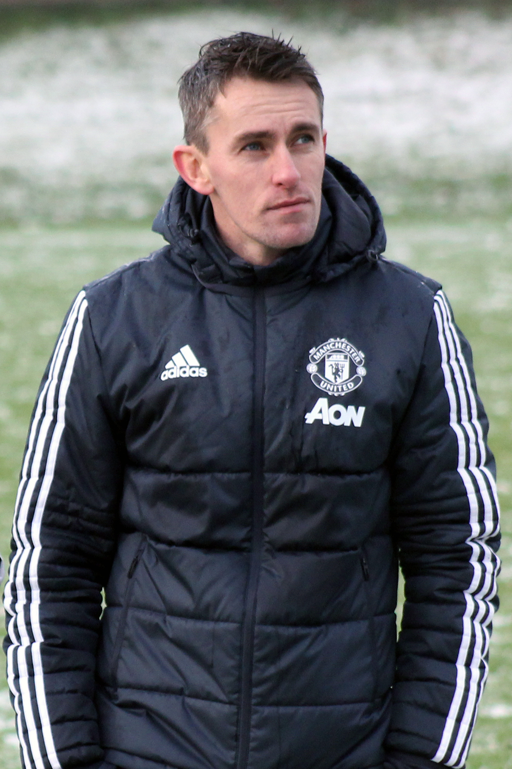 Colin Little (left) and Kieran McKenna (right) of Manchester United discuss the result of their U18 Premier League match against Liverpool at The Cliff, Salford, England on Saturday 9 December 2017.